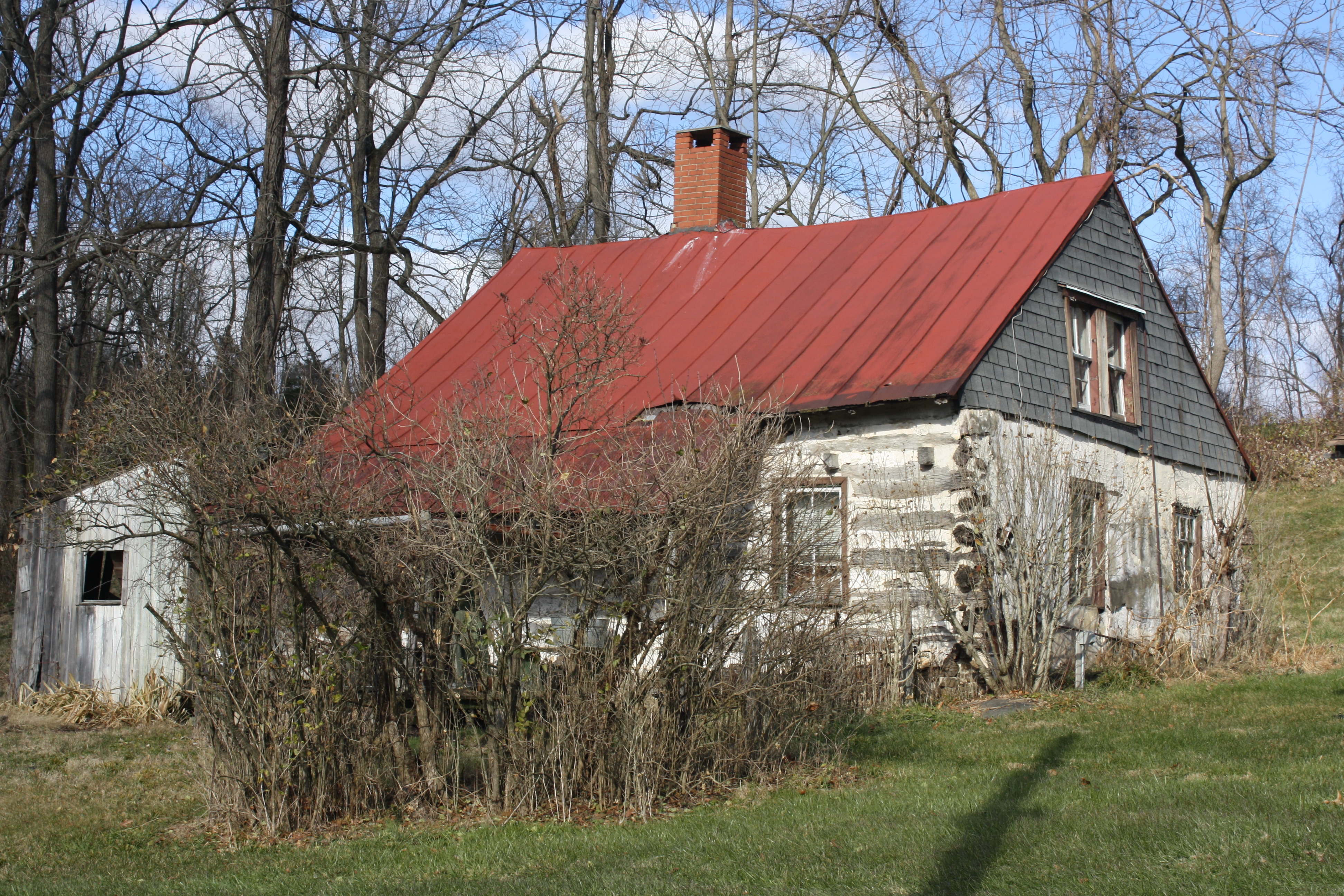 Knurr Log House is a historic home located at Delphi in Lower Frederick Township, Montgomery County, Pennsylvania. Object location40° 16′ 05″ N, 75° 28′ 39″ W